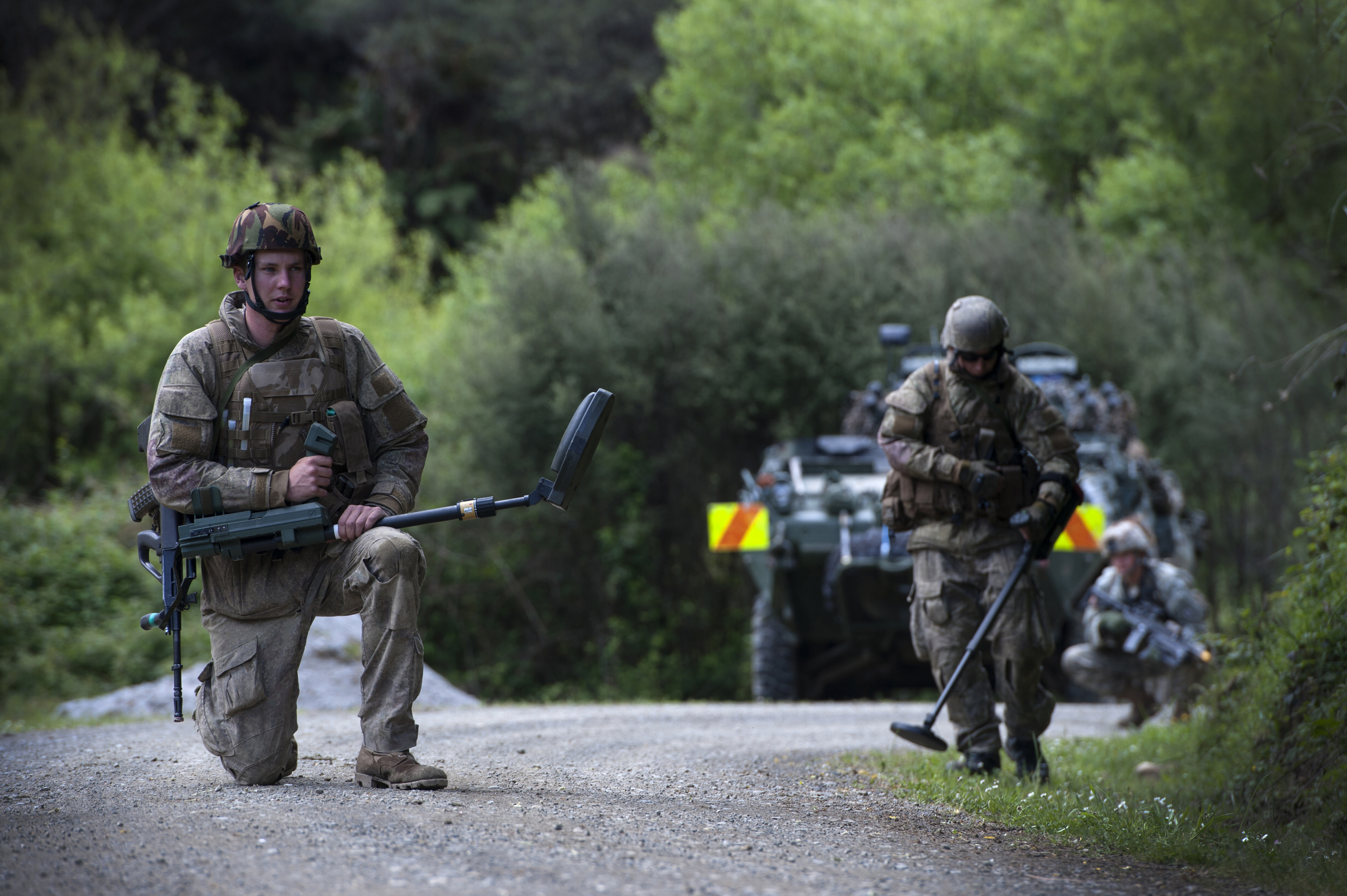 New Zealand Defence Force soldiers, 1st New Zealand Brigade, and U.S. Army Soldiers, 25th Infantry Division, sweep the road ahead to ensure their path is safe and clear of improvised explosive devices during Exercise Kiwi Koru Nov. 14, 2014, outside of Whangamomona, New Zealand. Exercise Kiwi Koru training elements included combat lifesaver training, Law of Armed Conflict scenarios, counter improvised explosive device training and a force-on-force tactical exercise. Approximately 60 Soldiers from the 25th Infantry Division at Schofield Barracks and 40 Marines from I Marine Expeditionary Force trained alongside approximately 600 New Zealand Defence Force soldiers from the 1st New Zealand Brigade. Kiwi Koru helps maintain a high level of interoperability and enhances military-to-military relations and combat capabilities. (U.S. Air Force photo by Staff Sgt. Christopher Hubenthal)